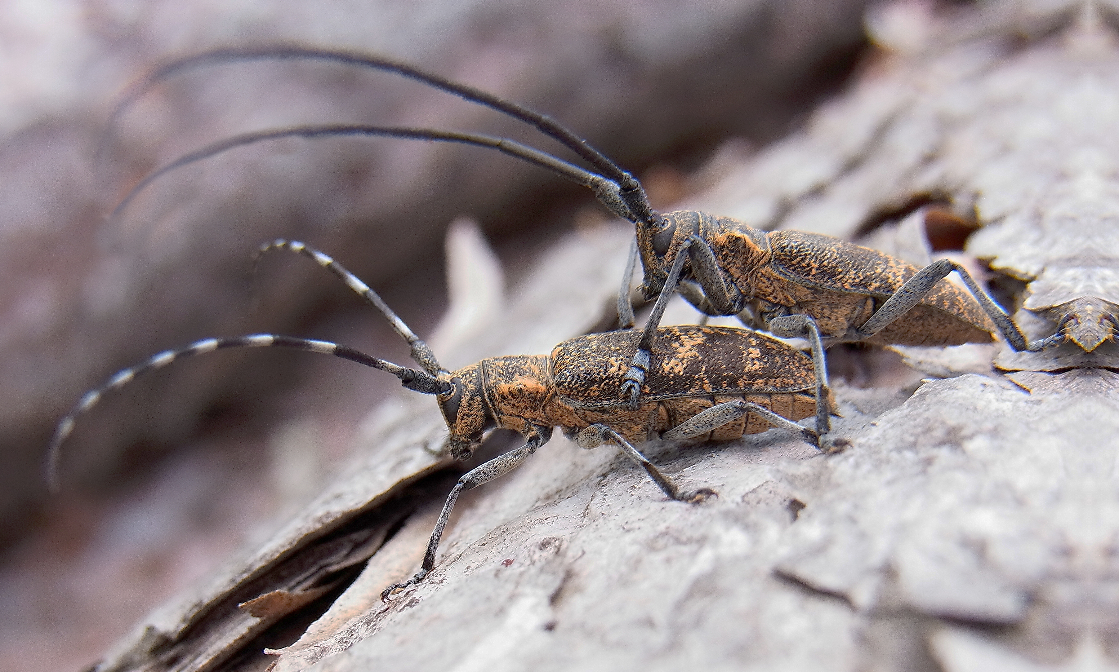 Monochamus galloprovincialis from Hungary, Àsotthalom, at 2012-05-27